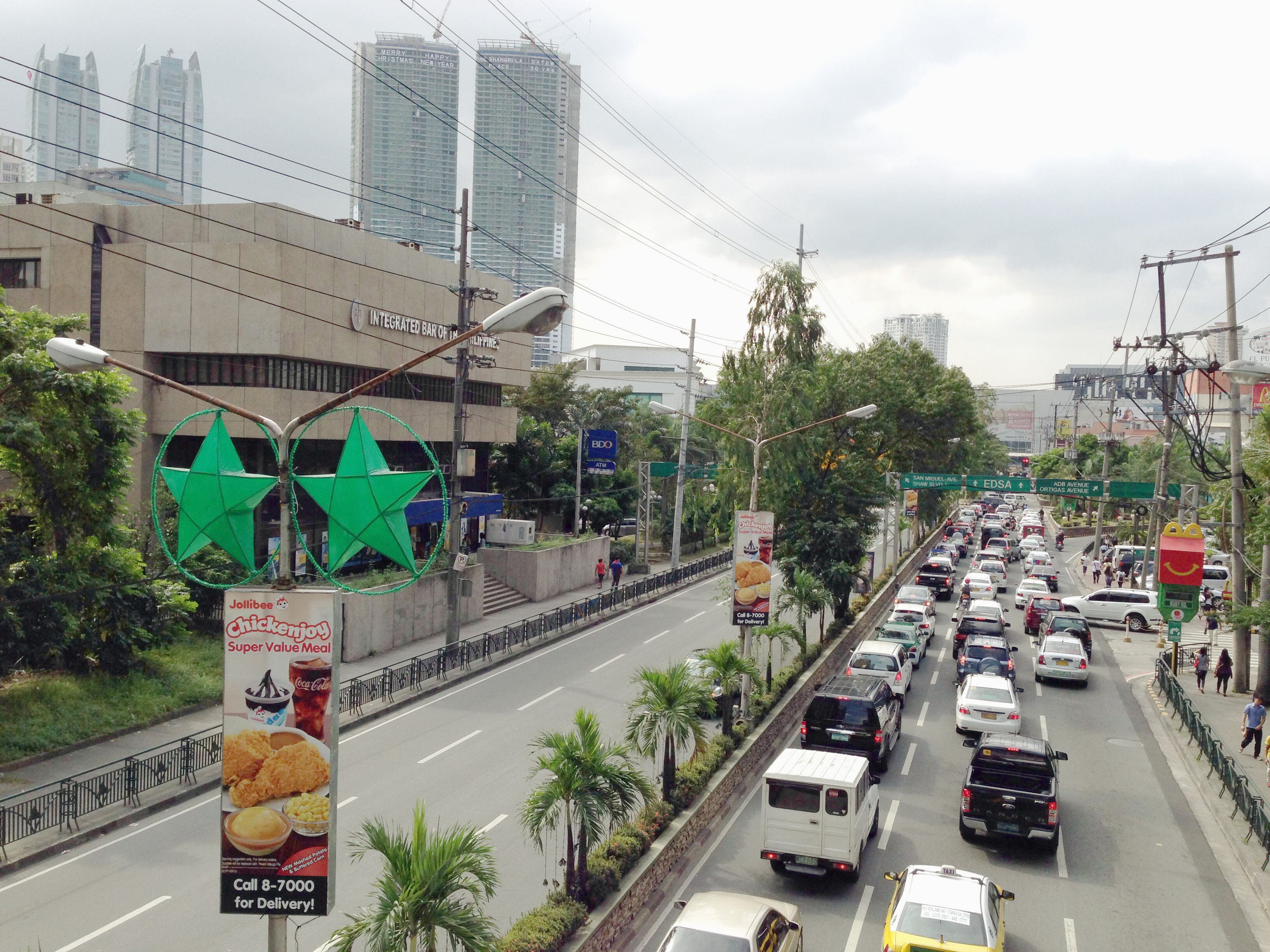 Julia Vargas Avenue, Ortigas Center, Pasig, Manila, Philippines